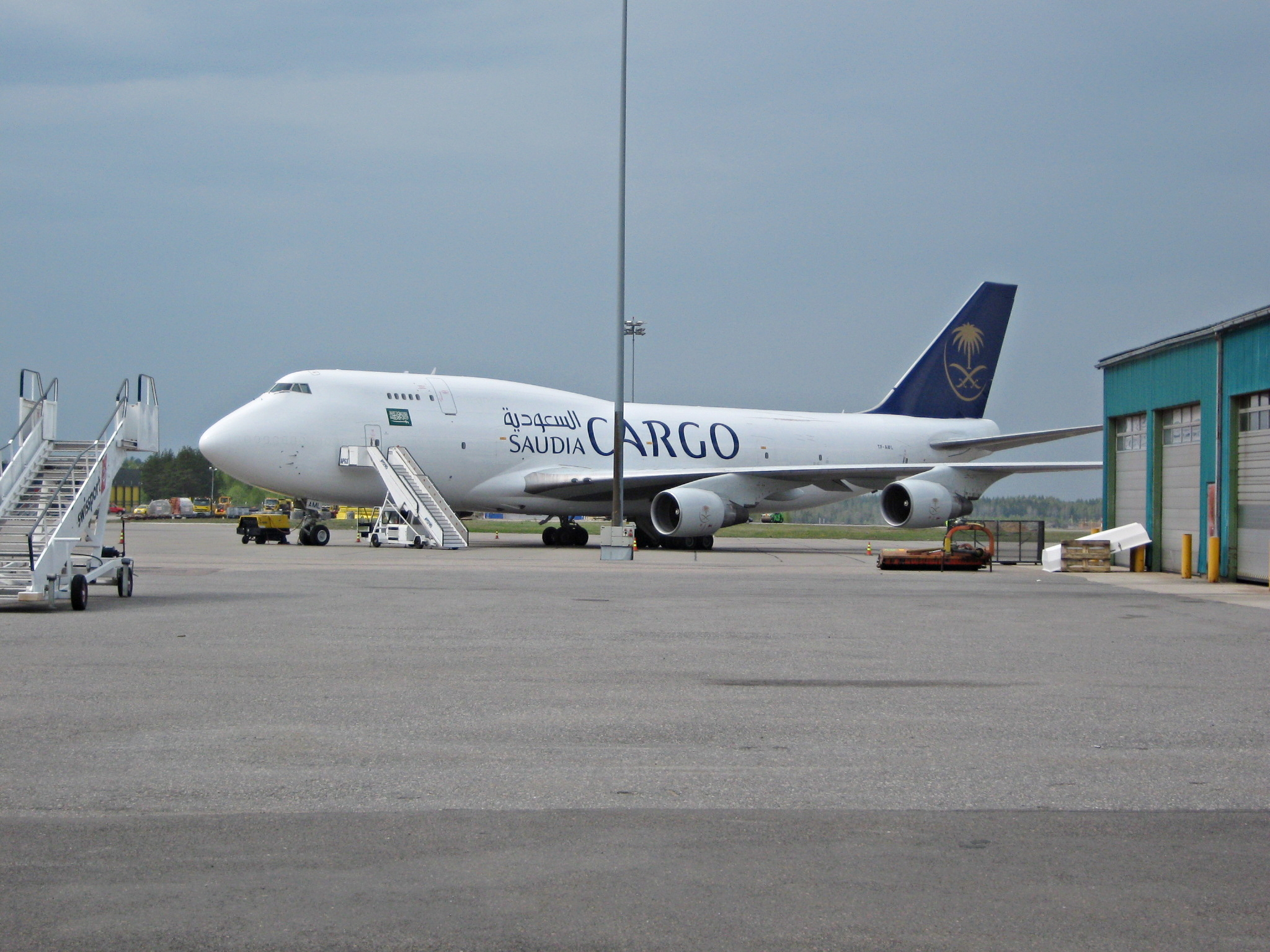 Saudi Arabian Airlines Cargo TF-AML B747-400BDSF at Turku Airport's Cargo APN